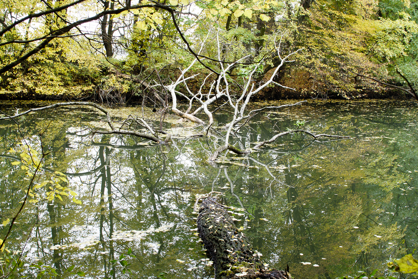 Morysin nature reserve - Sobieski Canal seen from the park, dead wood. Wilanów, Warsaw, Poland.